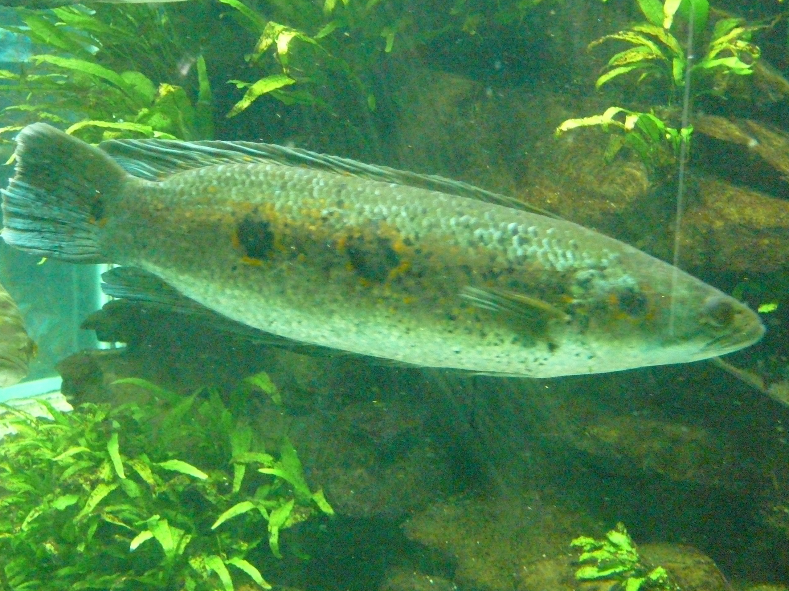 Channa pleurophthalma